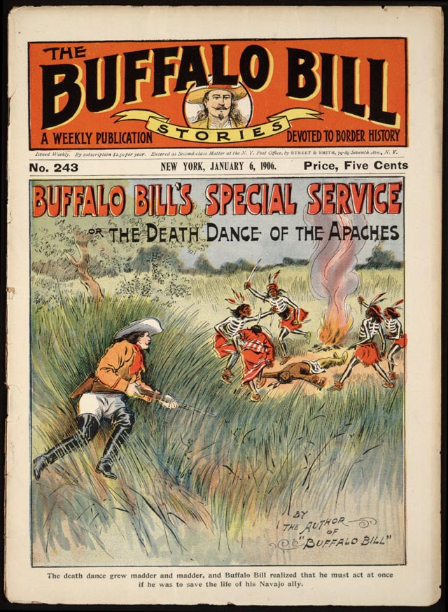 Buffalo Bill's Special Service; or, The Death Dance of the Apaches. 1906.